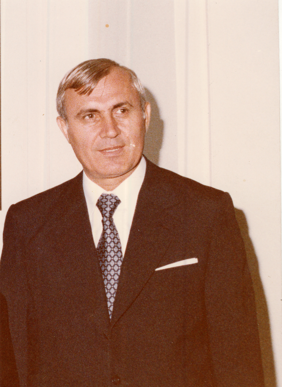 Romanian writer Ion Brad